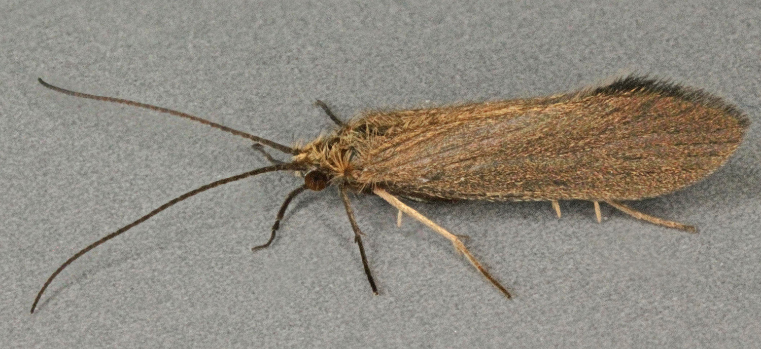 Tinodes assimilis, Psychomyiidae, Glaslyn marsh, North Wales, July 2014 (1)